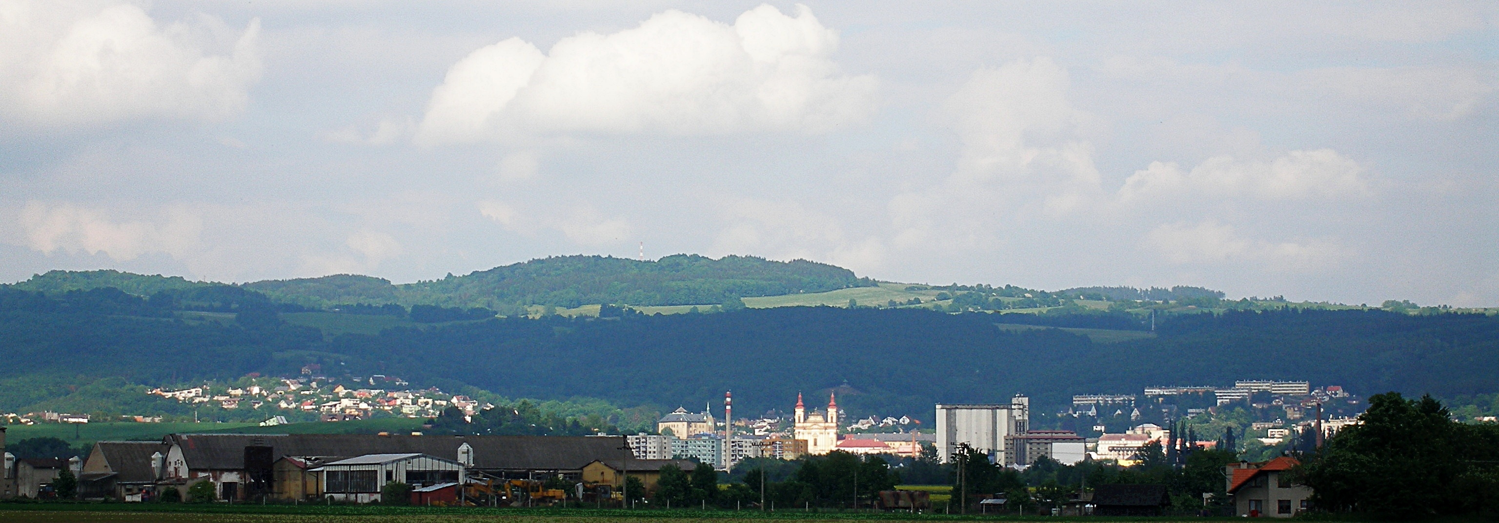 View of Šternberk (CZ) from Záluží